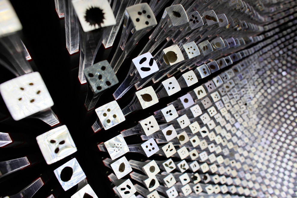 United Kingdom Pavilion closeup